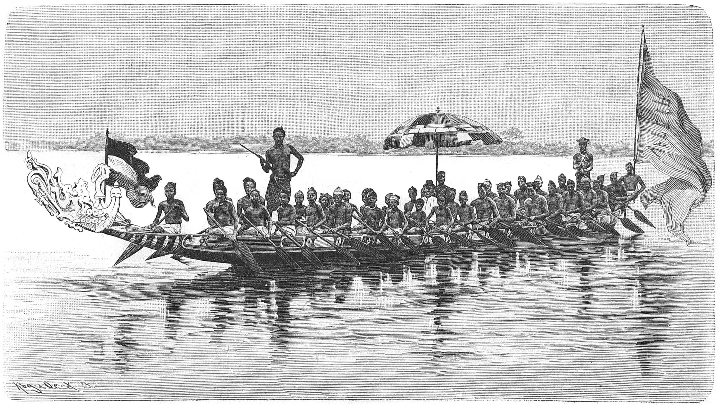 caption: "Kriegscanoe der Dualla in Kamerun."